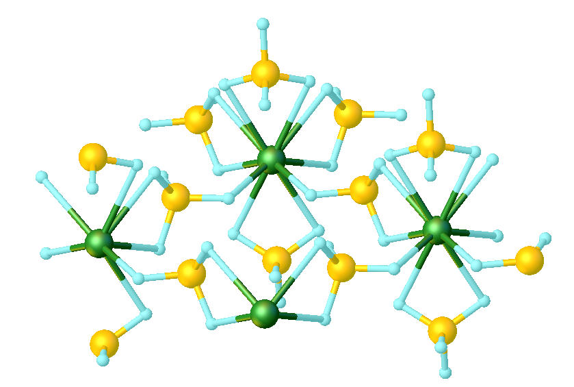 Structure of U(BH4)4 from Acta Crystallographica, Section C: Crystal Structure Communications 1987, 43, 1465-p1467